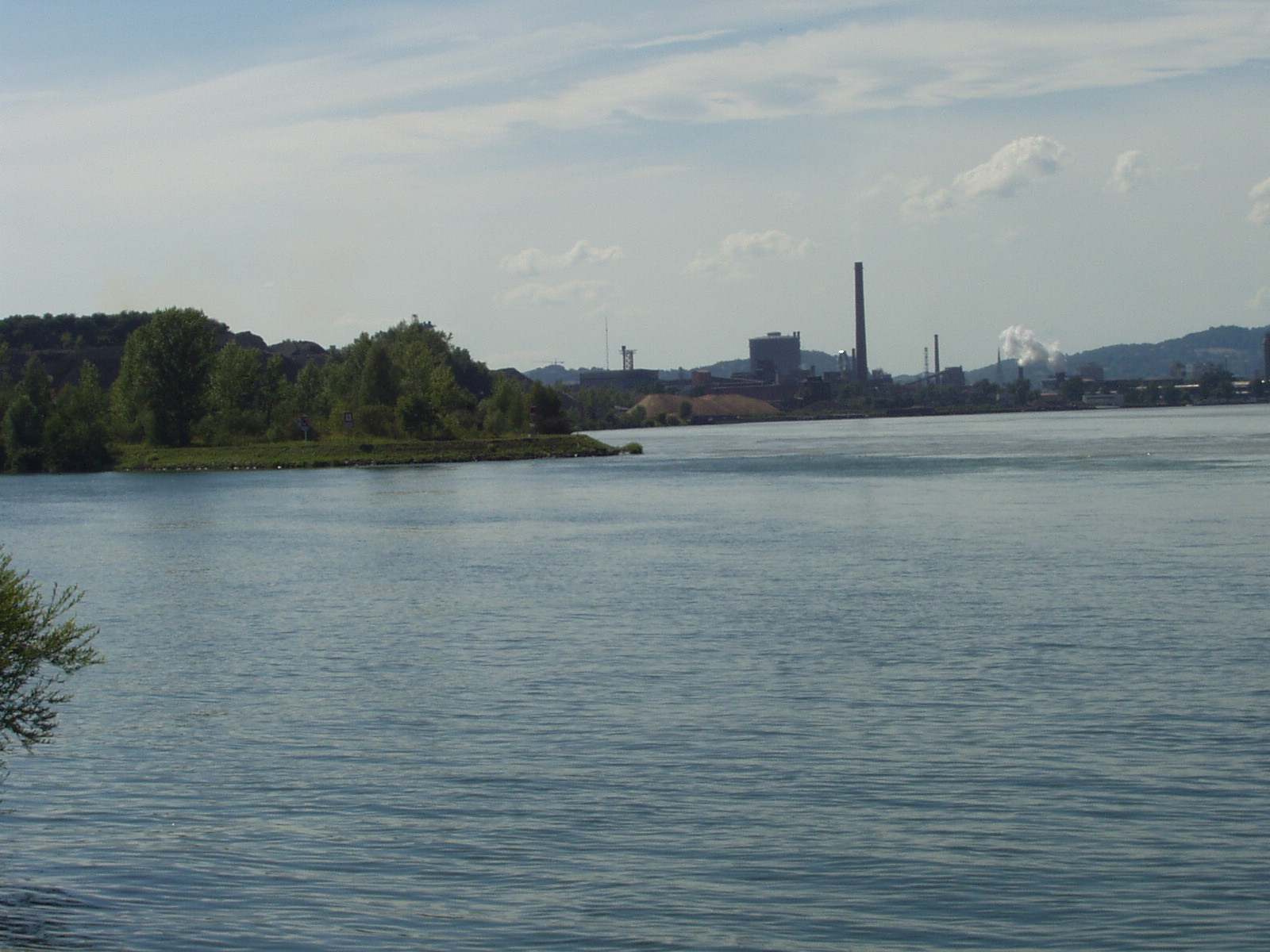 Austria, Linz, Danube